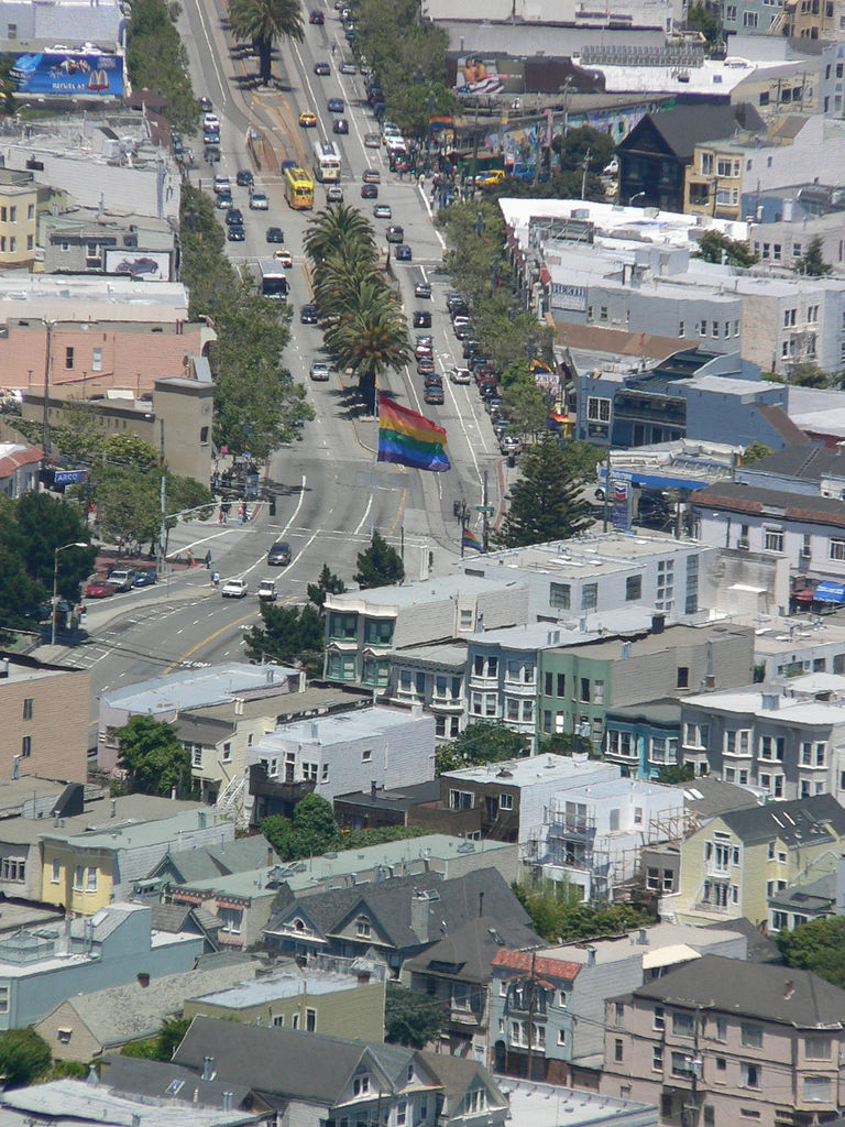 Close up of the gigantic rainbow flag flying over Castro Street.